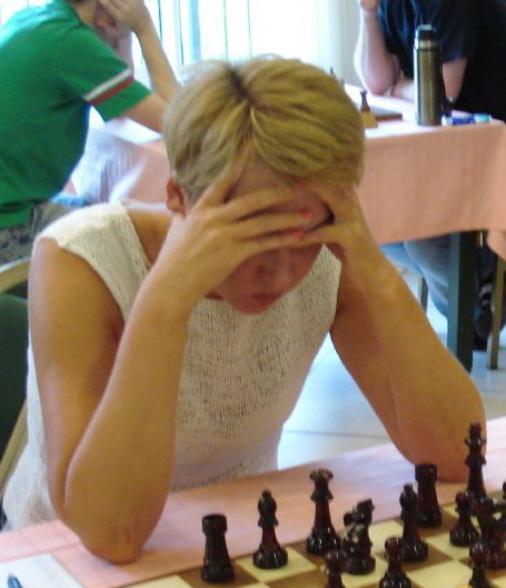 WGM Tatiana Shumiakina from Russia, Andorra 2007. XXV Open Internacional d'Andorra 2007. Hotel St Gothard, Erts La Massana. Setena ronda.